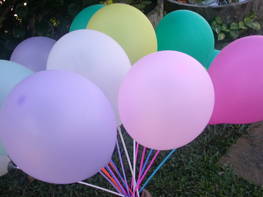 my old photo - toy balloons for happy new year 2006